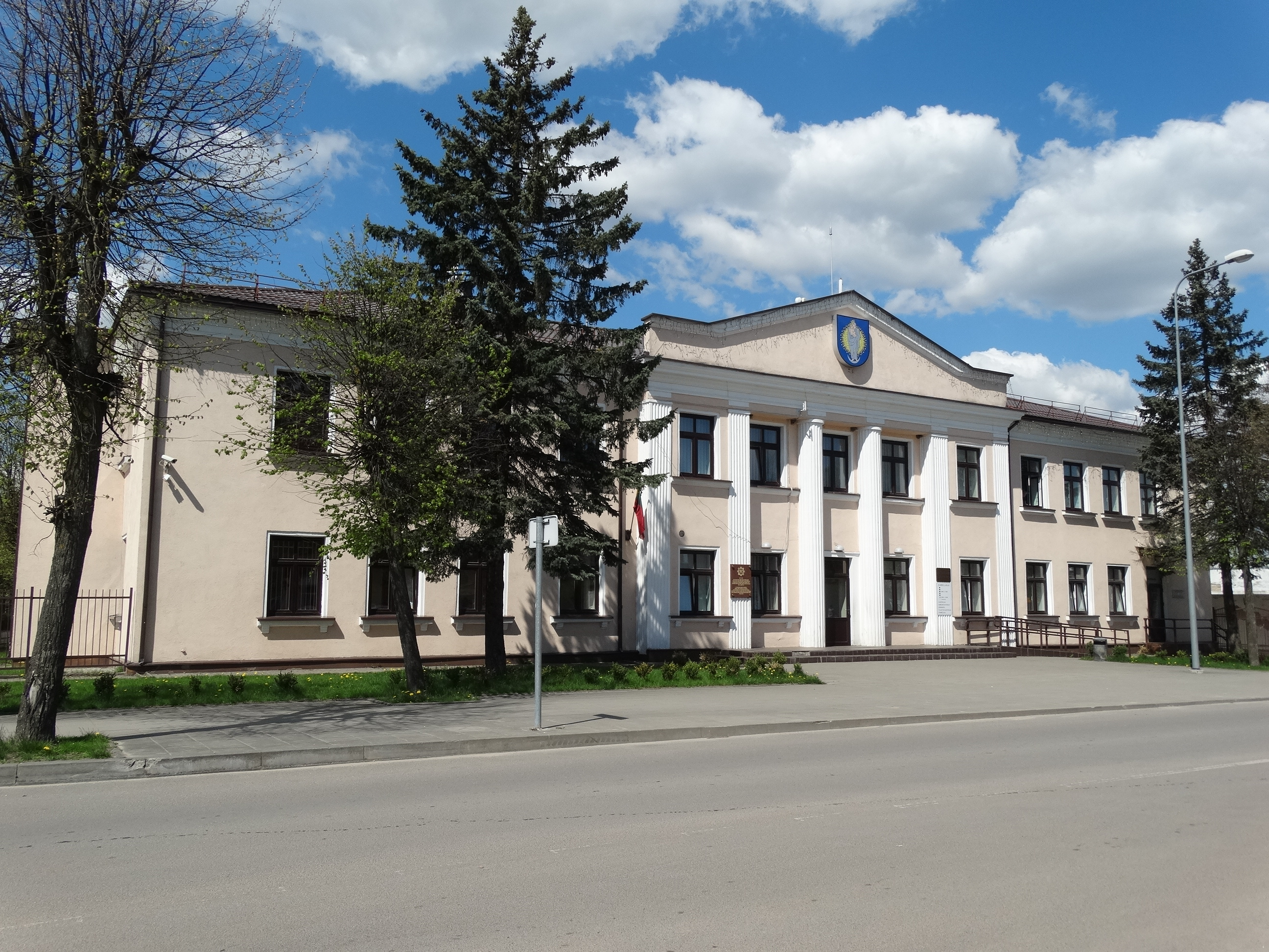 Eldership, Eišiškės, Šalčininkai District, Lithuania